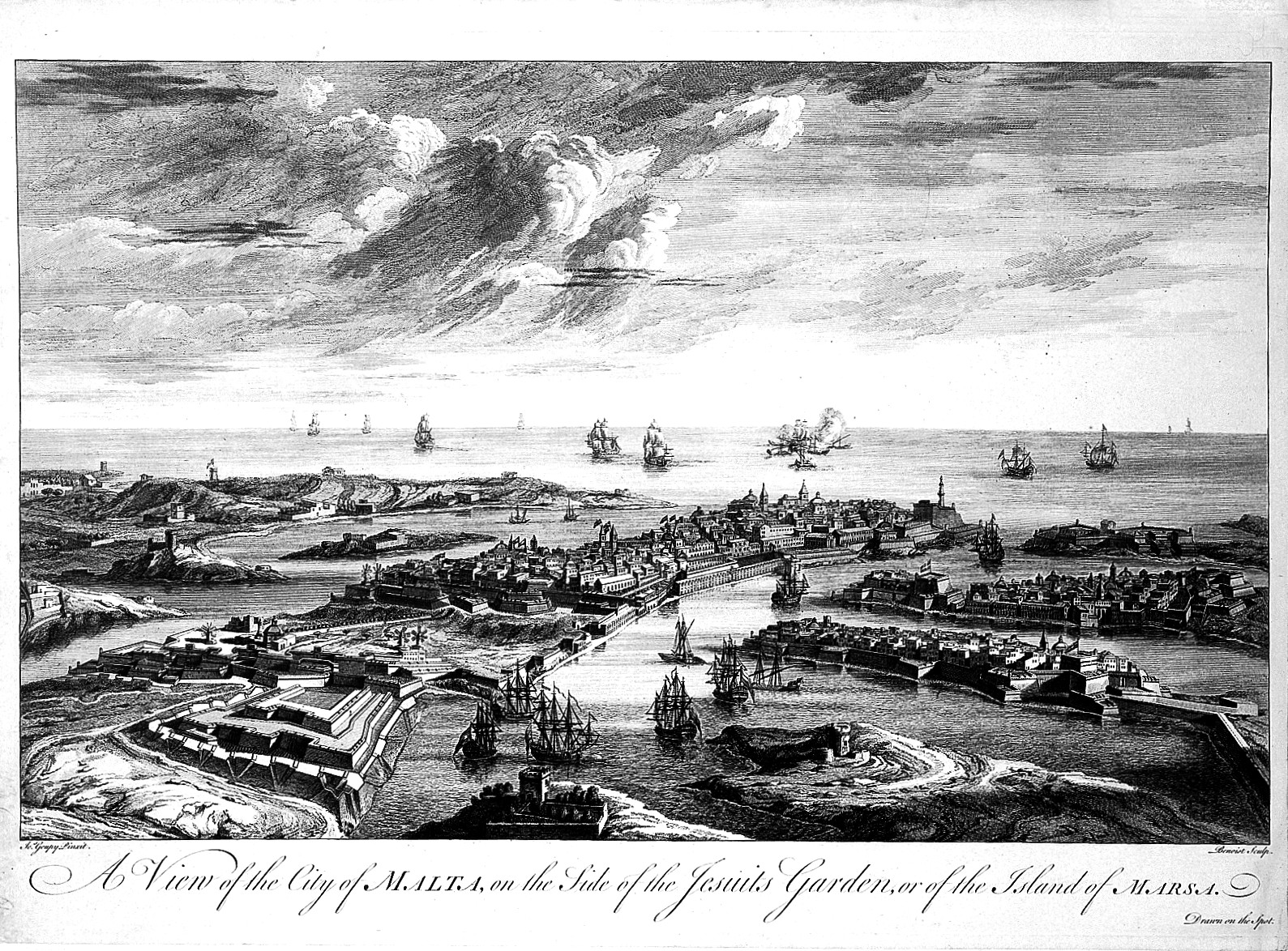 Malta: view of the city. Etching by M-A. Benoist, c. 1770, after J. Goupy, c. 1725. Iconographic Collections Keywords: Joseph Goupy; Joseph Goupy; M-A. Benoist